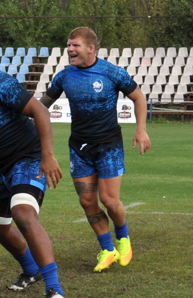 Georgian rugby union international Bidzina Samkharadze, player of CSM Baia Mare rugby club seen in a match against CSA Steaua București in Round 5 of Romanian Rugby SuperLiga in September 2017